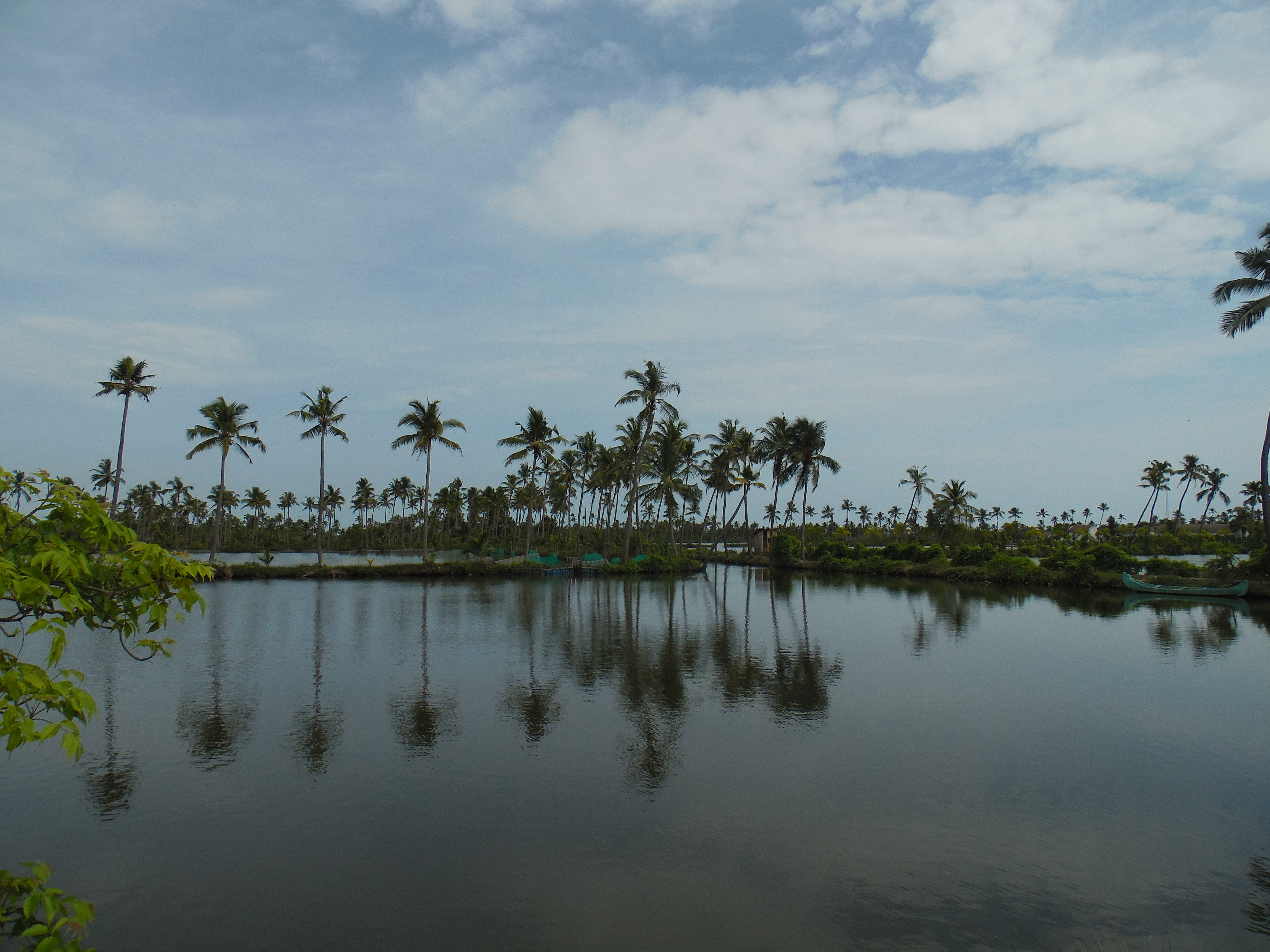 Kumbalangi- backwater